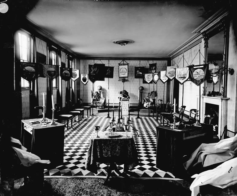 View of a room at the Masonic Hall in Bury St Edmunds, Suffolk, England. The room pictured was known as the Manorial Room, and it was situated within a building purchased in 1890 by members of two Masonic lodges – the Royal St Edmund 1008 and the Abbey 1592. The two lodges formed a company called Saint Edmundsbury Masonic Hall Company Limited, which purchased the premises formerly known as the 'Six Bells Inn' and converted it into the Masonic lodge. Photograph courtesy of the Bury St Edmunds Past and Present Society, Spanton Jarman Collection.